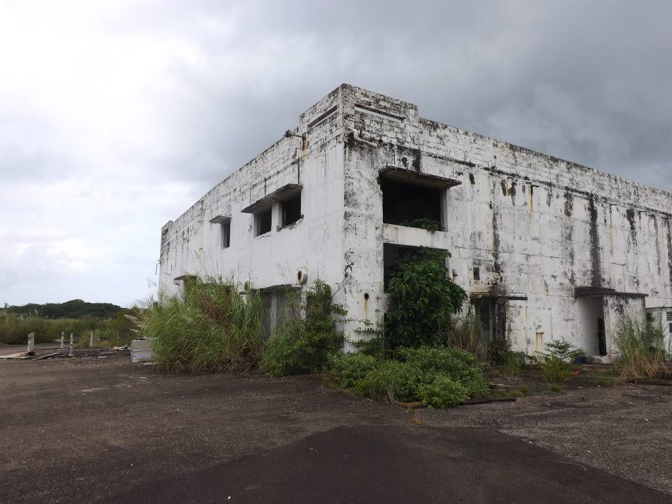 Seen in August 2013 now abandoned and gutted and returning to the jungle.